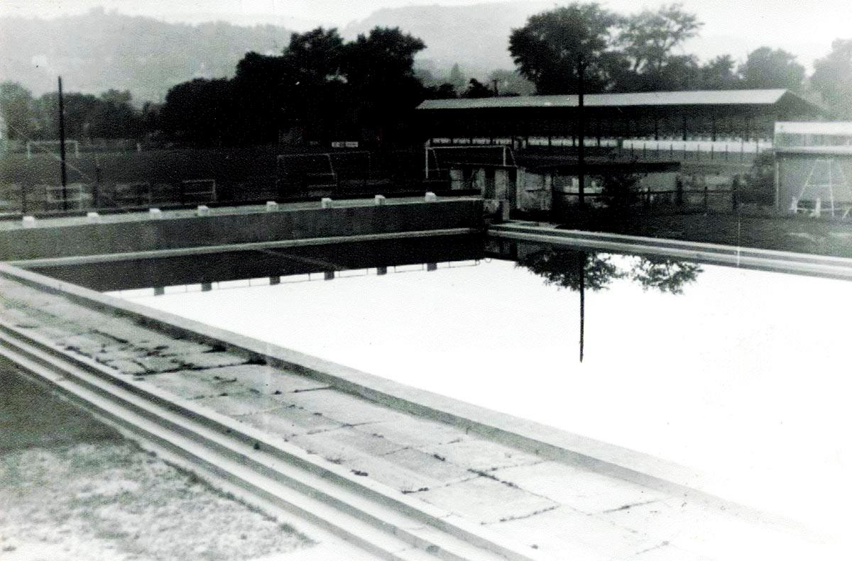 The stadium before the AC Dorog has been qualified as first class team and outdoor pool now Nipl Swimming Pool and Bath.